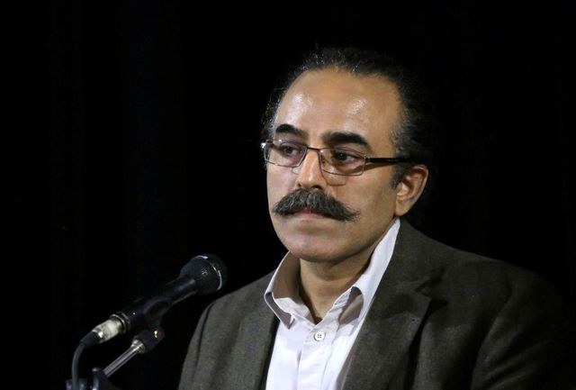 Ali Shirazi (born 1339) calligrapher from Iran